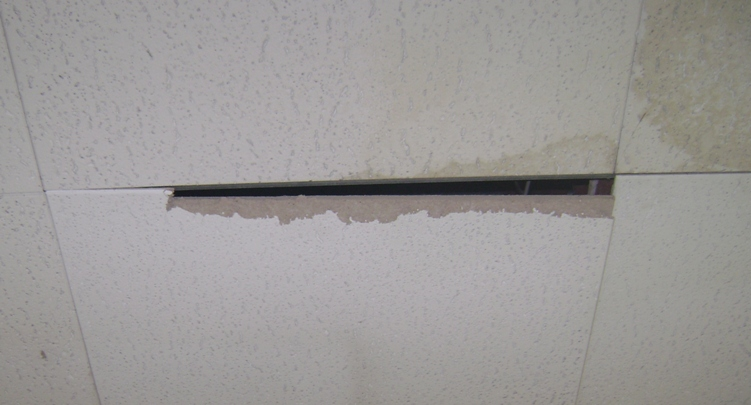 Broken panel from a dropped "concealed" ceiling